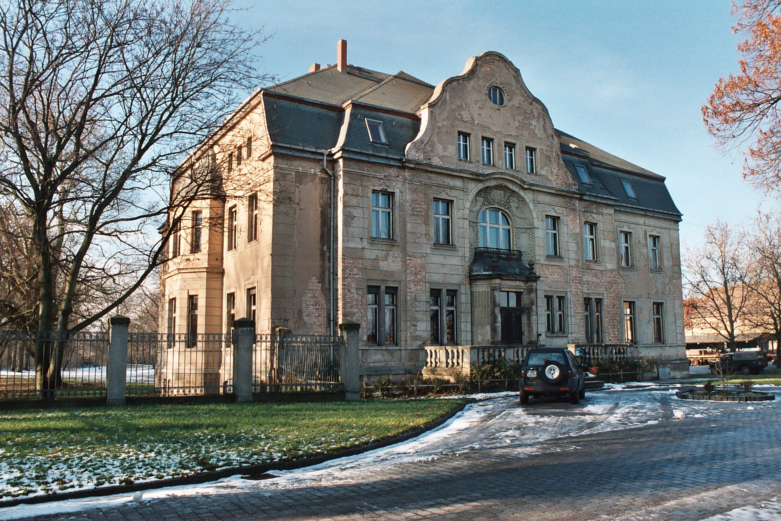 Etzdorf (Teutschenthal), the manor house